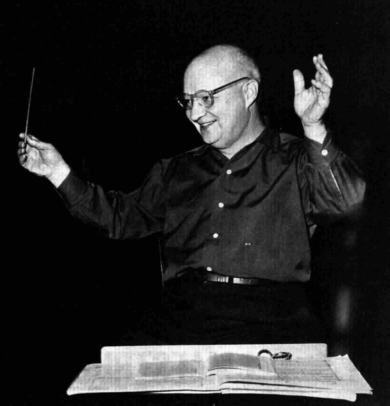 Paul Hindemith, rehearsal of a concert at the Auditorium of Turin, Italy